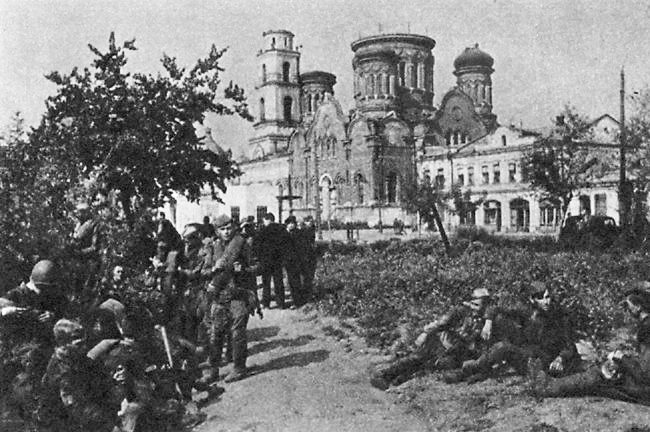 Soviet soldiers resting in Pervomayskaya Square (now Tankers square)